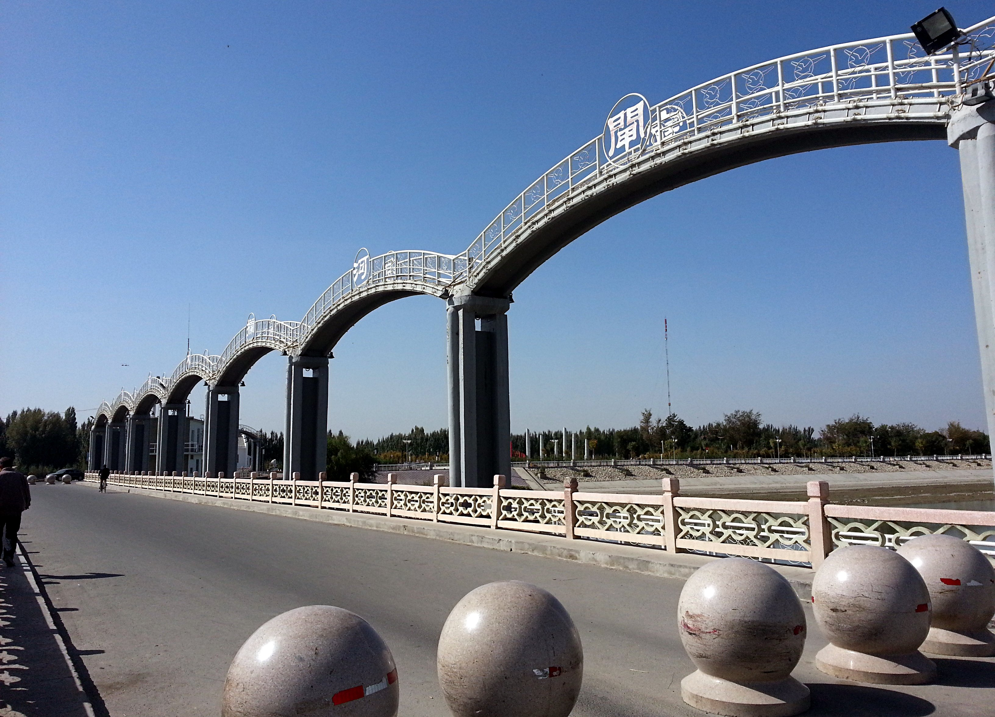 Photograph of a pedestrian bridge over the Kaidu River in downtown Karasahr, Yanqi Hui Autonomous County in the Bayin'gholin Mongol Autonomous Prefecture of Xinjiang, in northwestern China.